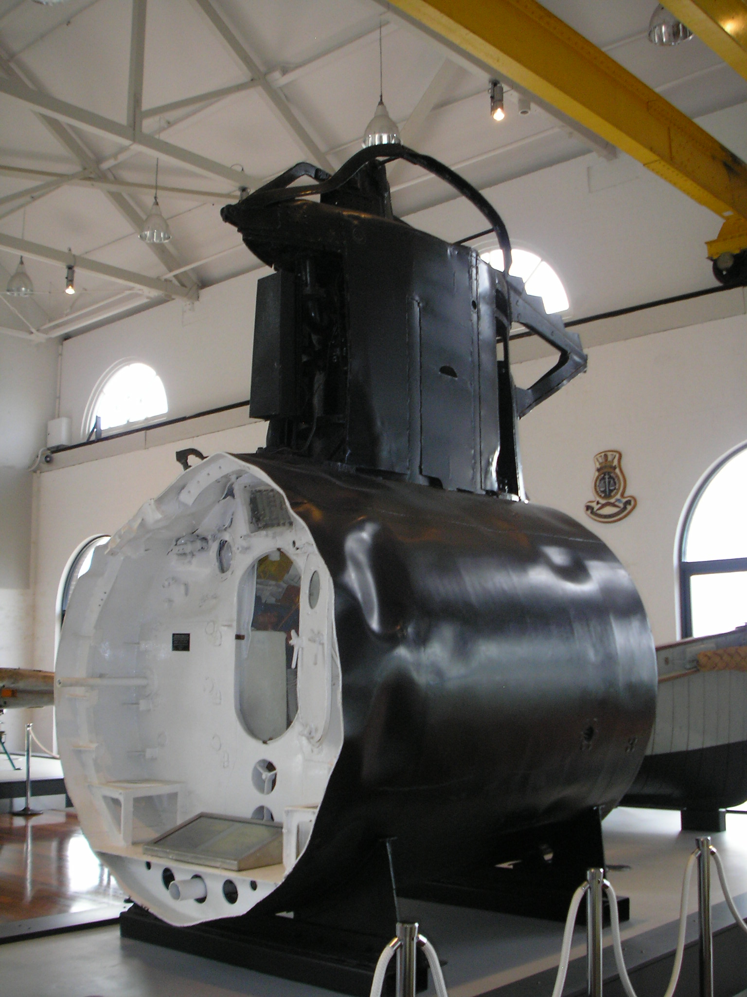 The conning tower from midget submarine M22 on display at the Royal Australian Navy's museum at Garden Island, Sydney